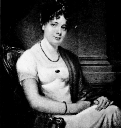 by virtue of age